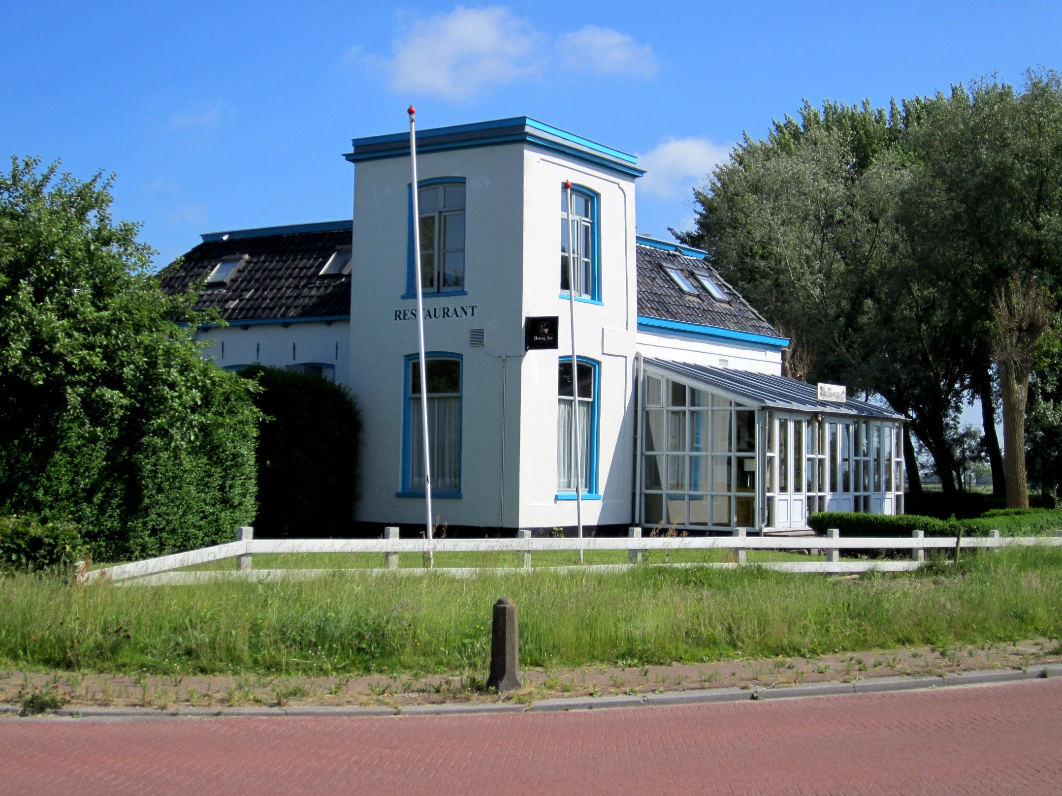 Restaurant "Op Hatsum" in Hatsum, Dronrijp, Friesland, the Netherlands.